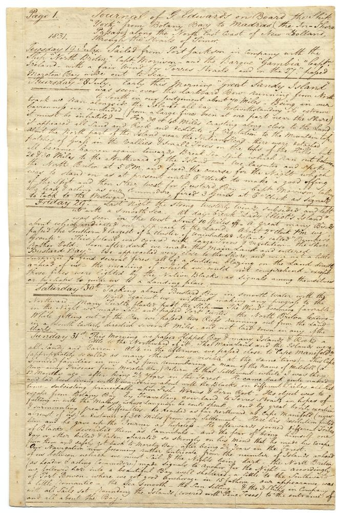 This is the digital image of George Edward's journal